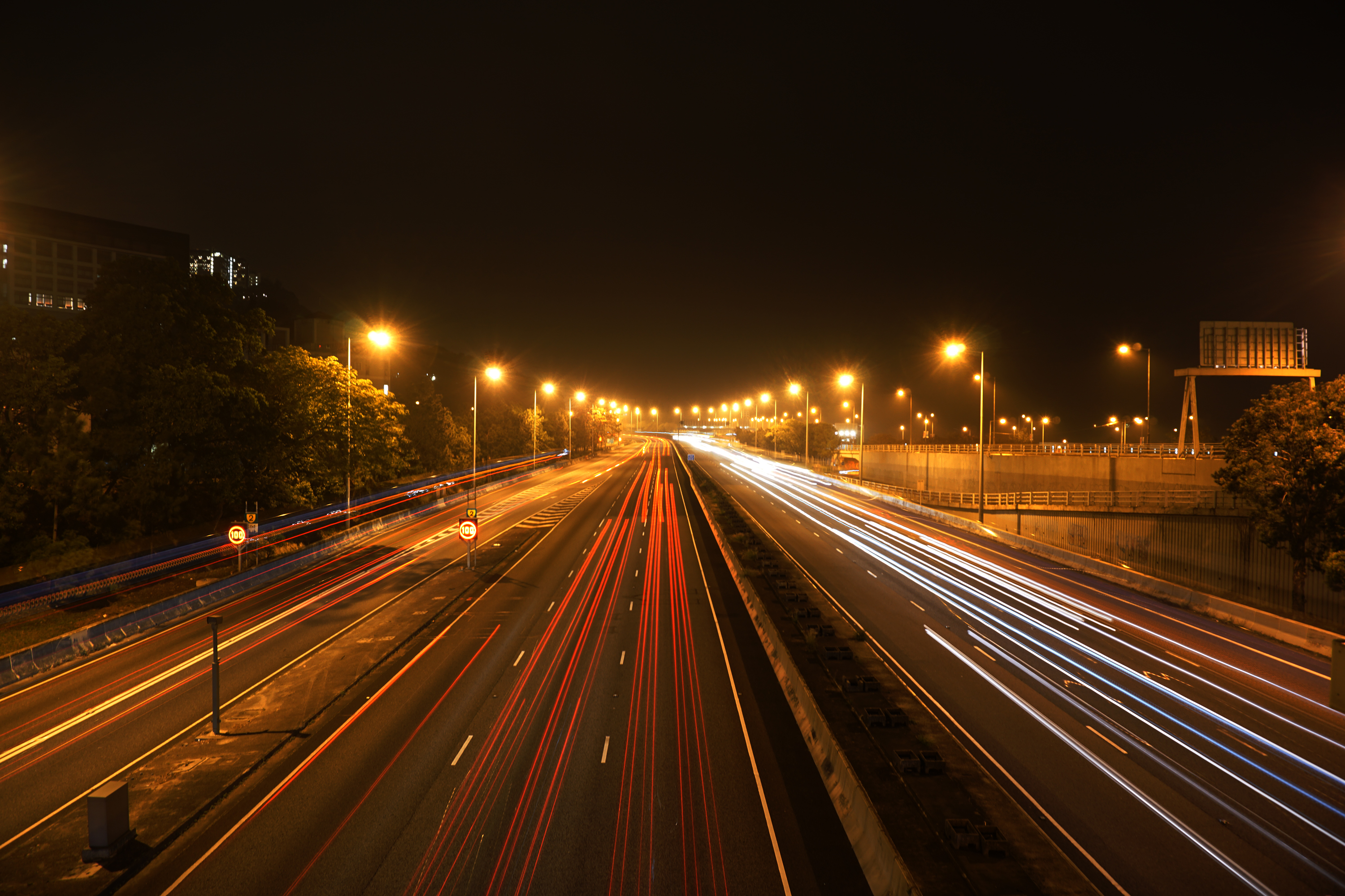 Tolo Highway in Ma Liu Shui, Hong Kong.